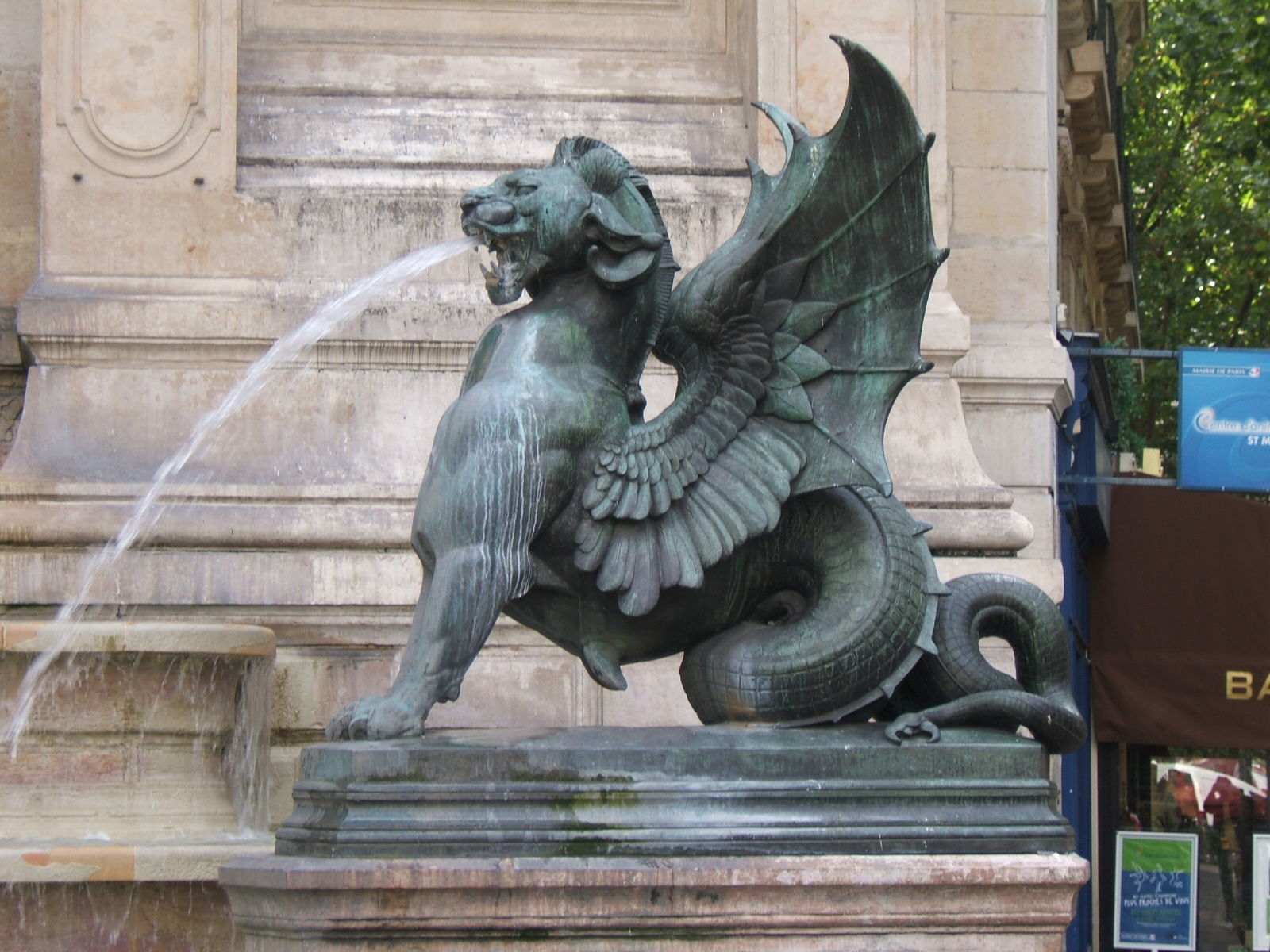 Fontaine Saint-Michel (Paris, France). One of two griffin like sculptures by Henri Alfred Jacquemart